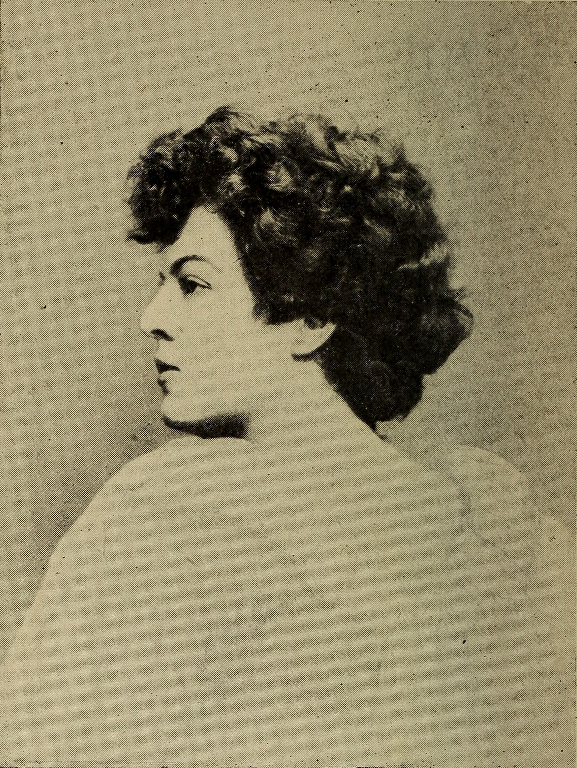 Portrait of Dora Sigerson Shorter by an uncredited author, as it appeared in The tricolour; poems of the Irish revolution published in 1922 by Maunsel & Roberts, Ltd., Dublin, Ireland.